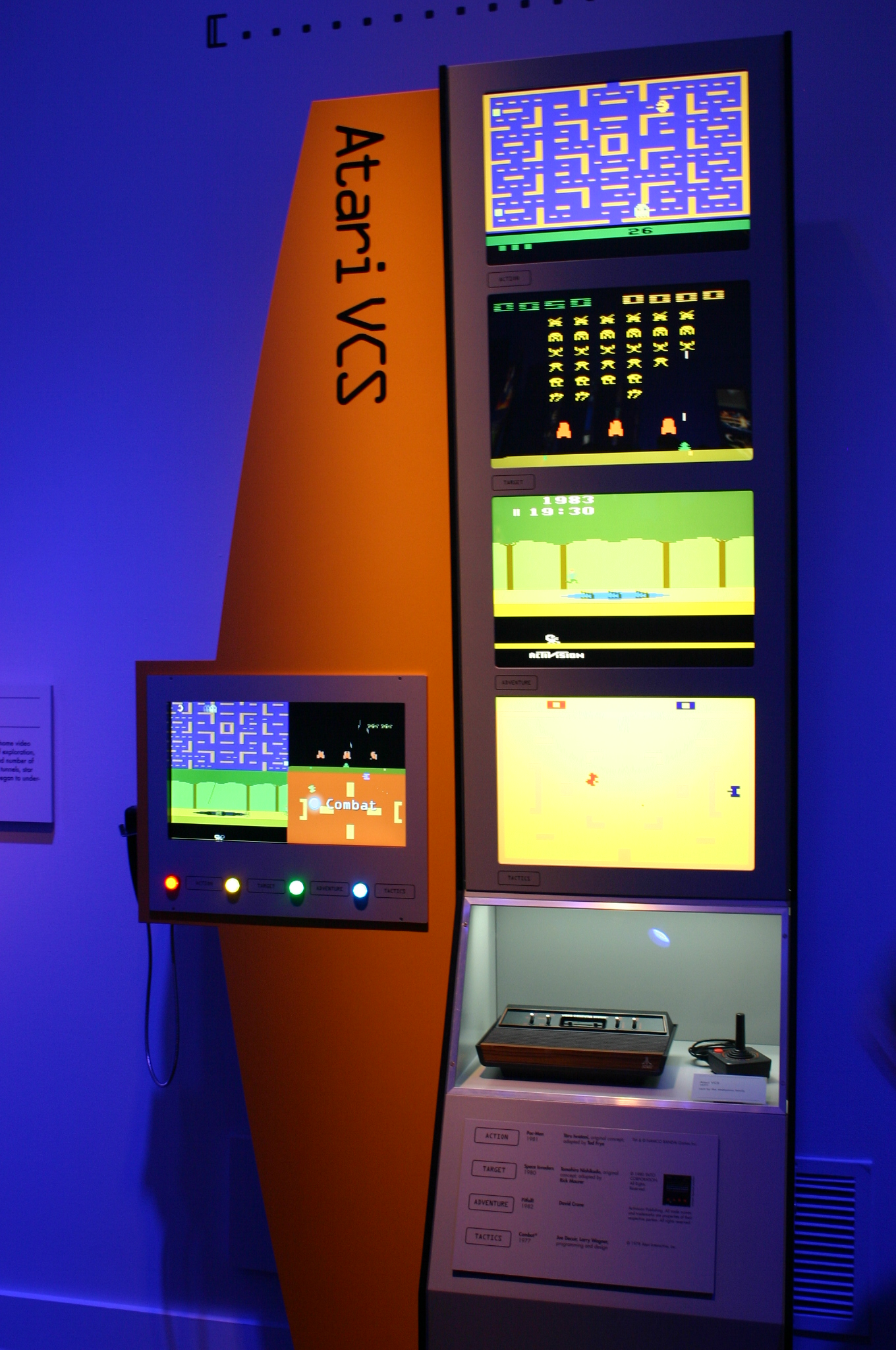 Atari 2600 display taken at the Smithsonian American Art Museum as part of its "The Art of Video Games" exhibit